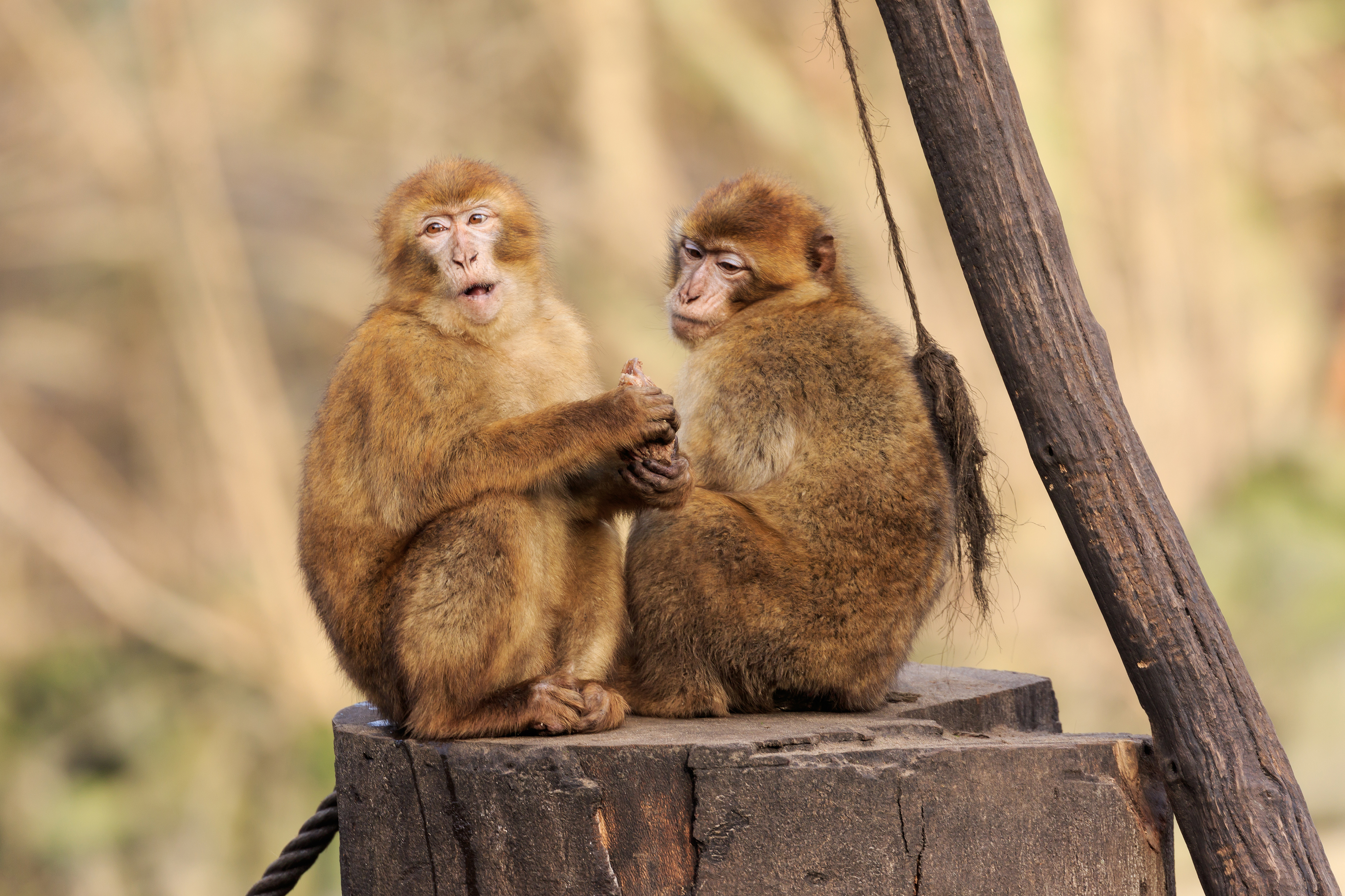 Two Barbary macaques in the Berlin Tierpark (Friedrichsfelde zoo)